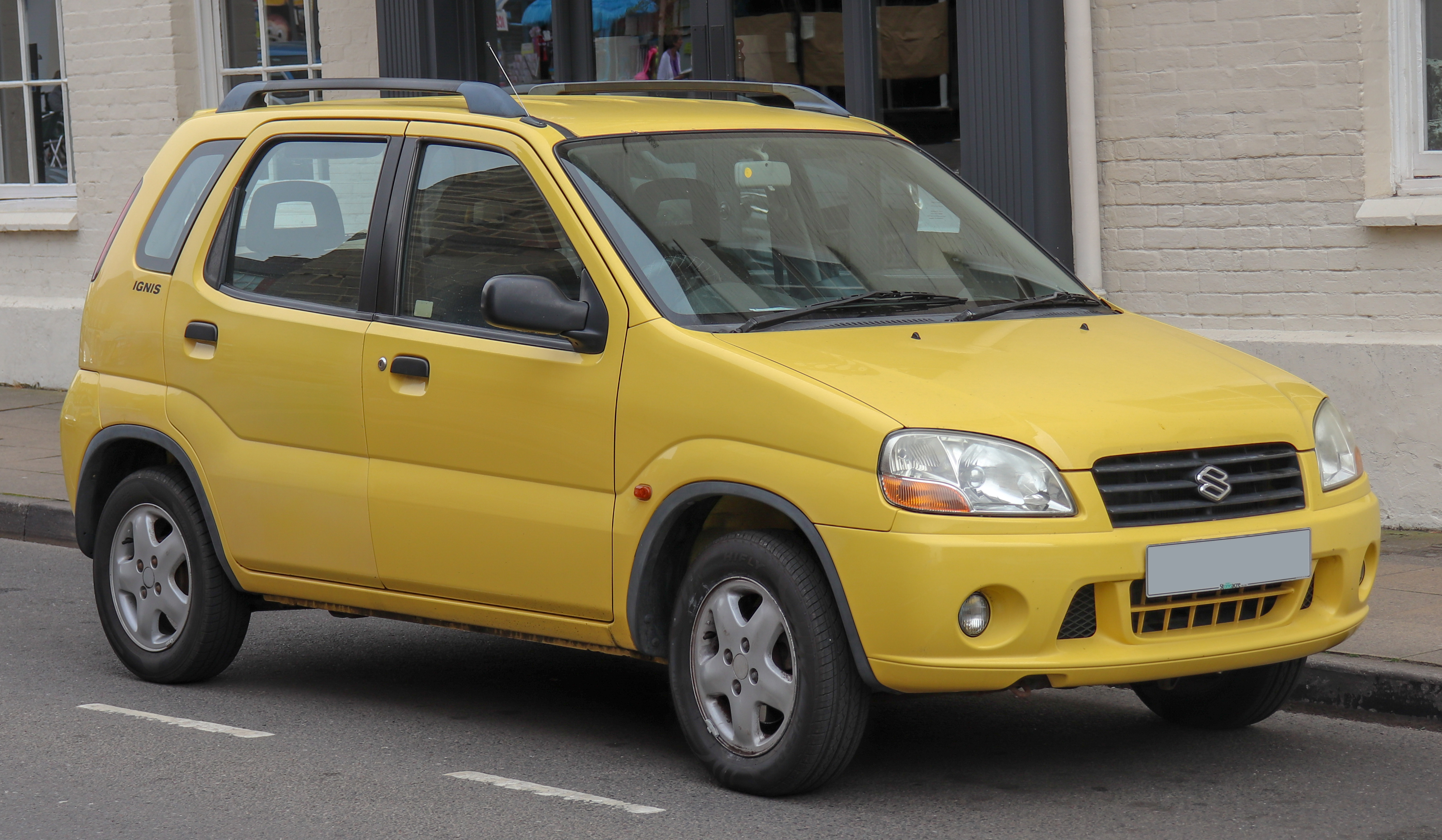 2002 Suzuki Ignis GL 1.3 Front Taken in Warwick